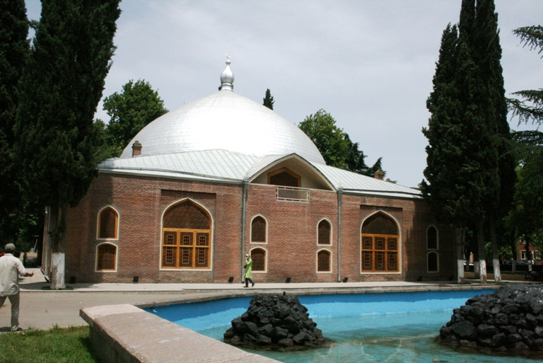 Juma(shah-abbas)mosque_XVIIcentury in ganja/Azerbaijan